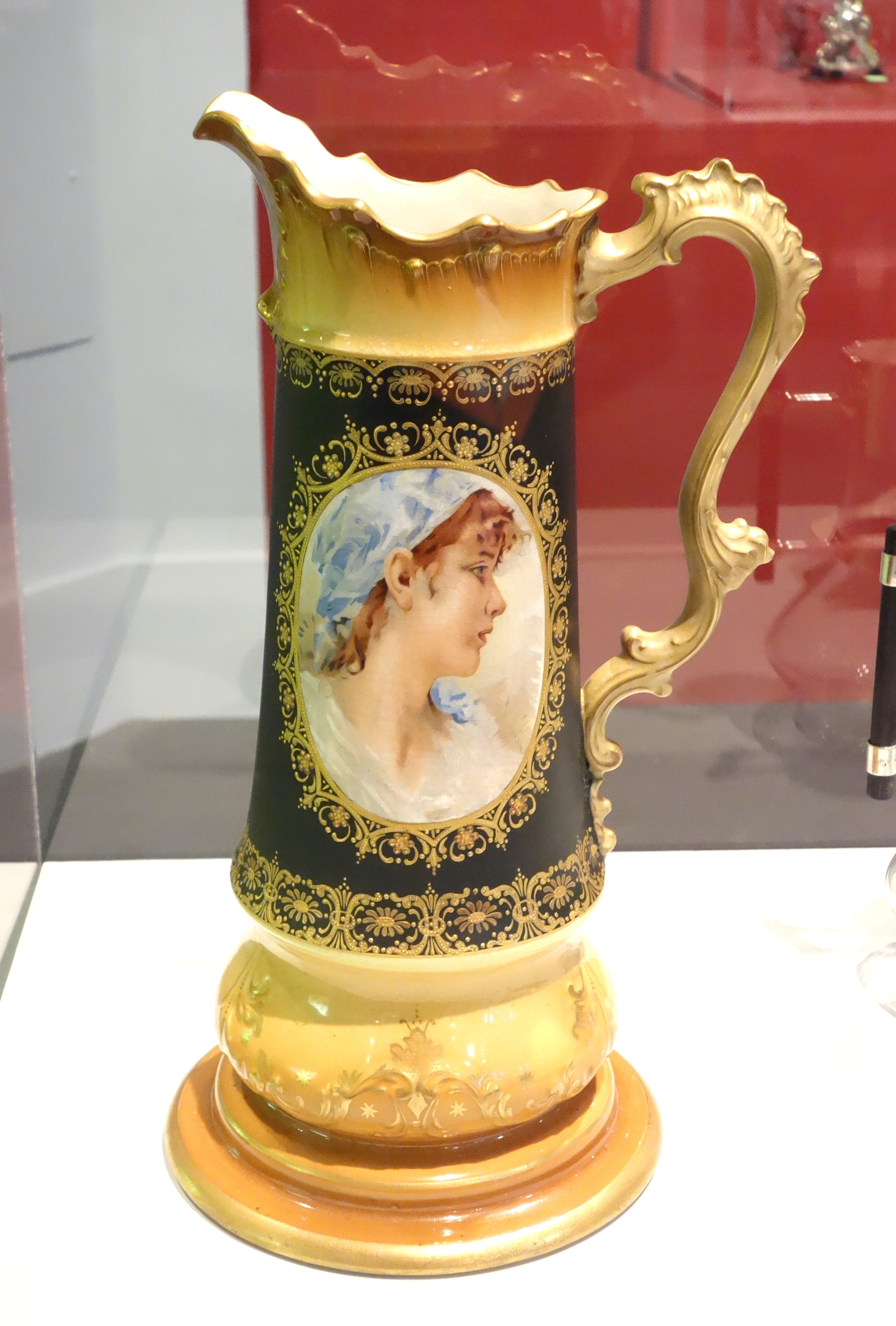 Exhibit in the Brooklyn Museum - Brooklyn, New York, USA. This artwork is in the public domain because the artist died more than 70 years ago.